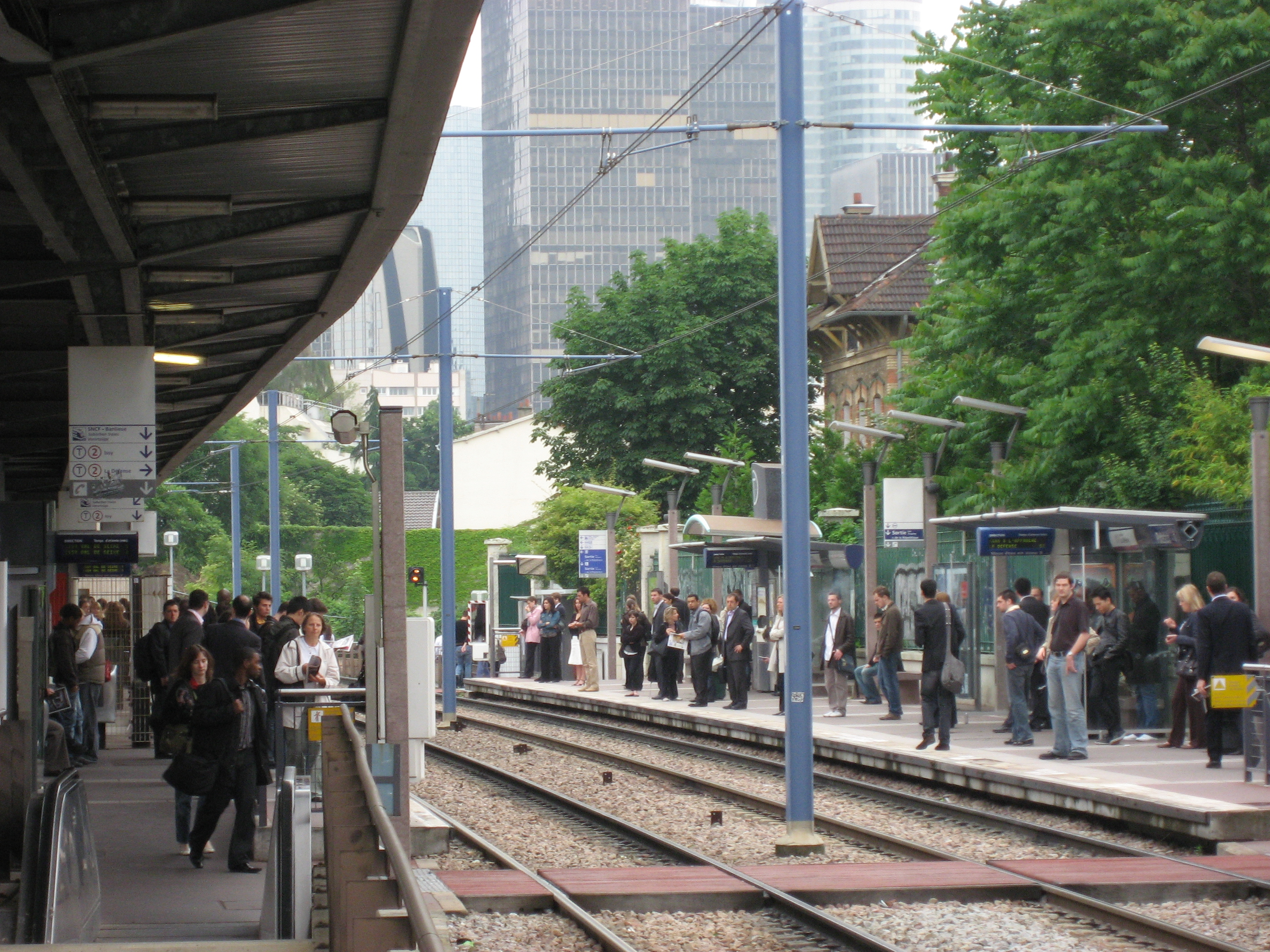 Tramway platform of the Gare de Puteaux with La Défense in background.